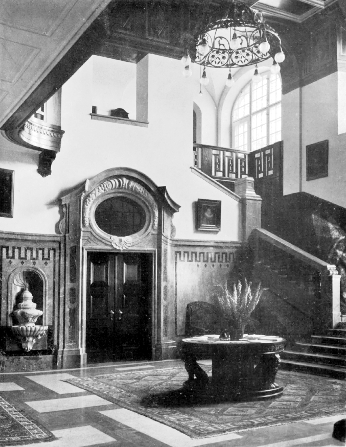 Hirschberg am Haarsee Mansion, Deutenhausen, Weilheim-Schongau county, Germany. View of the entrance hall